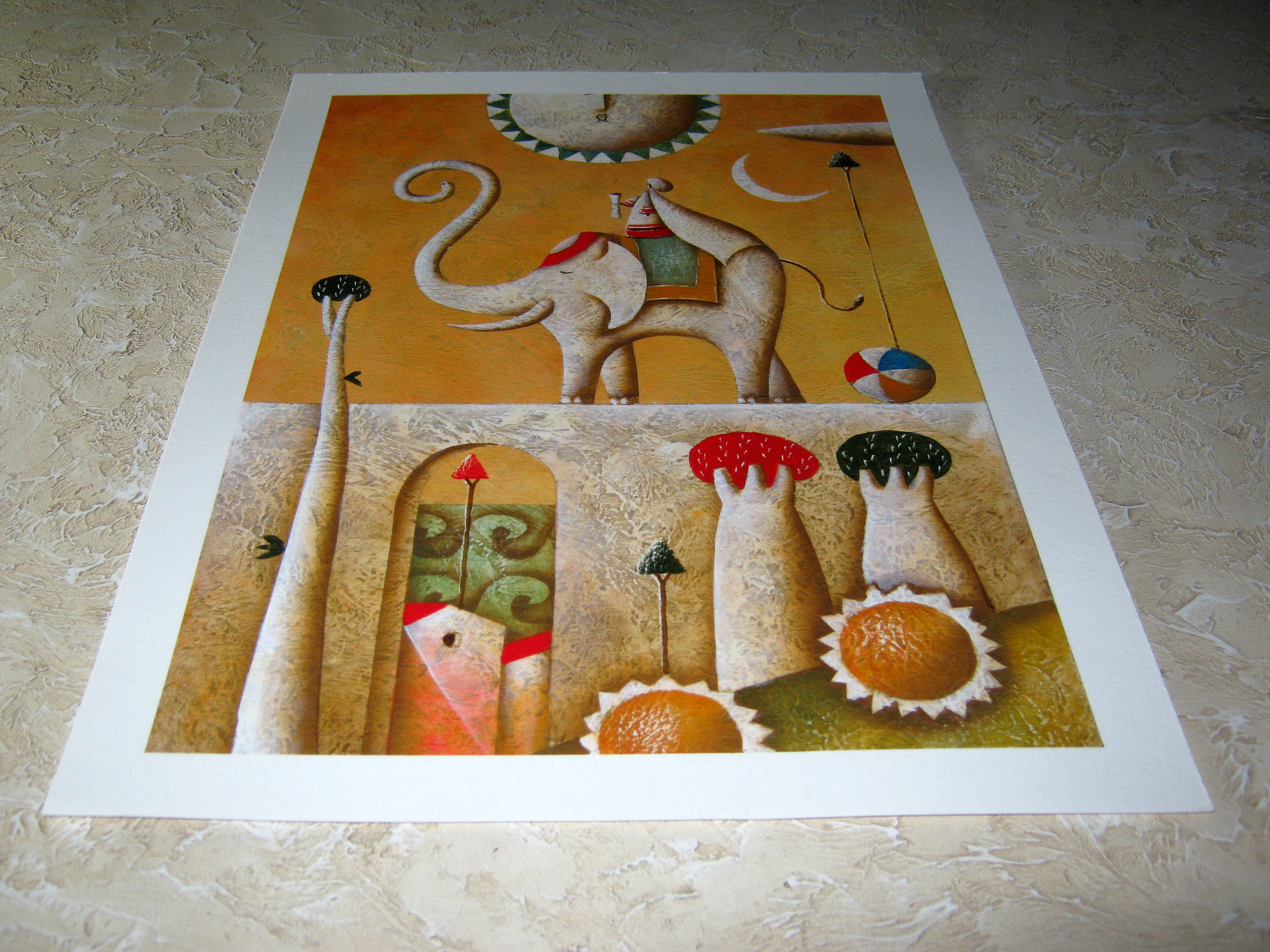 Giclée Print